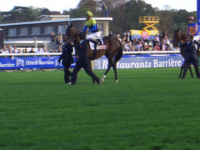 Deep Impact (2006 Prix de l'Arc de Triomphe)